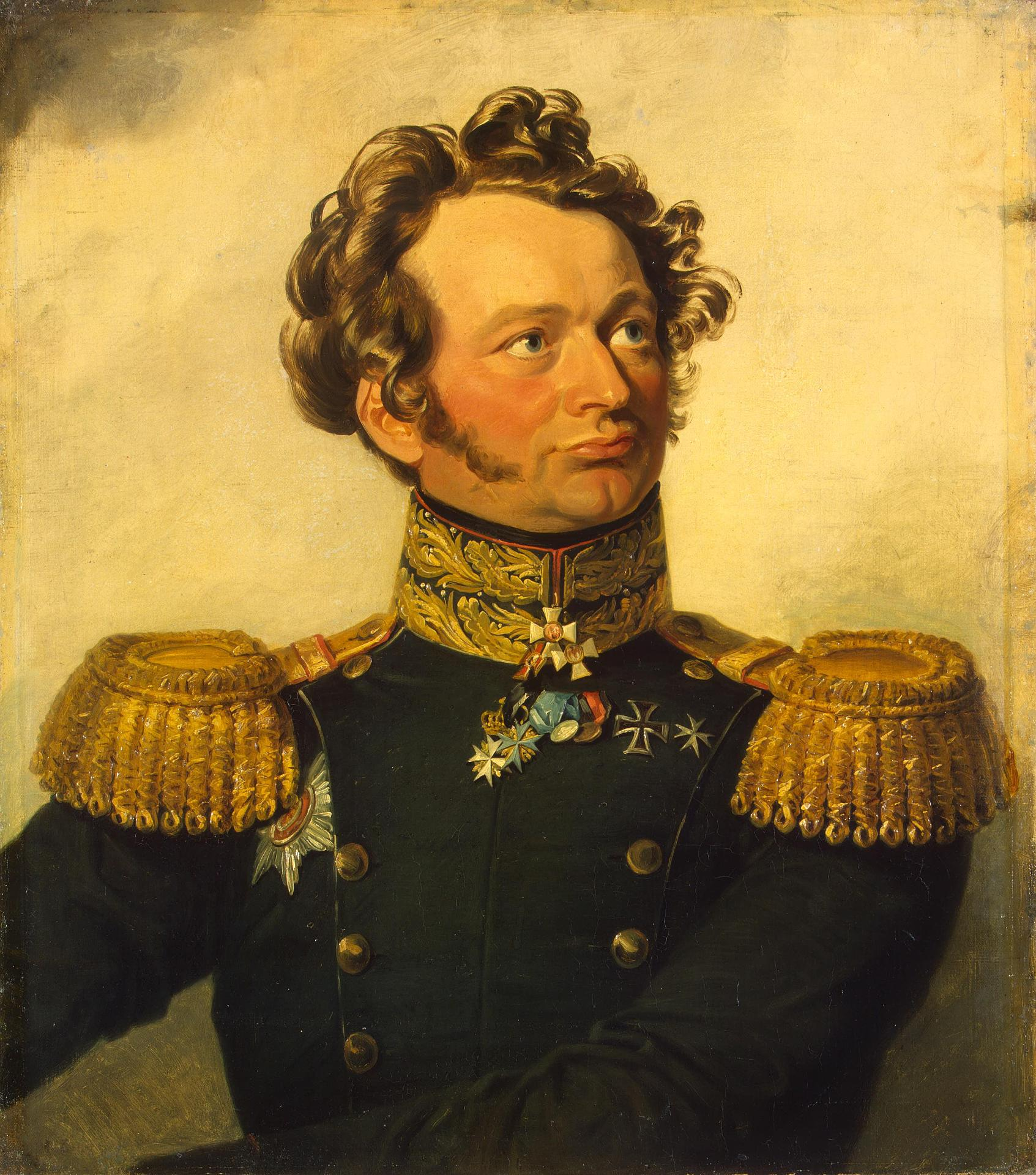 Portrait of Karl Bistrom, a Russian General.